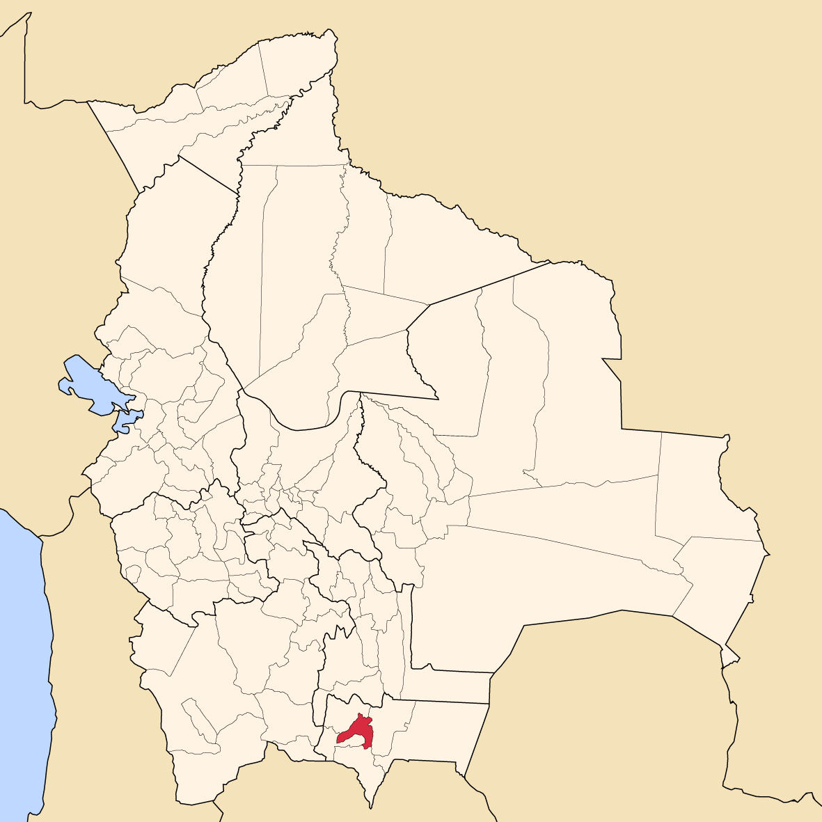 Map of Bolivia showing Cercado province, Tarija